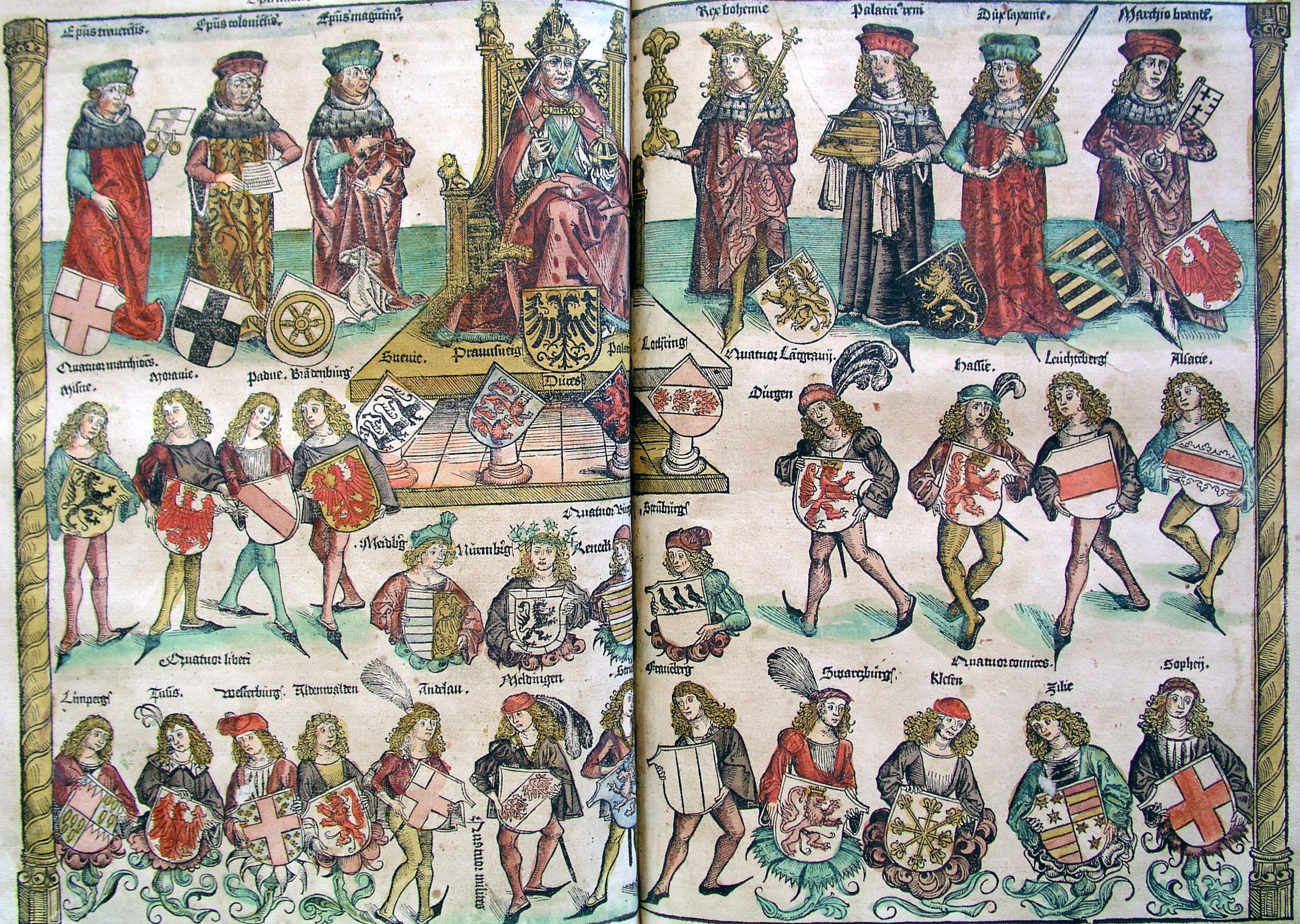 Organizational Structure of the Empire of the Holy Roman Empire